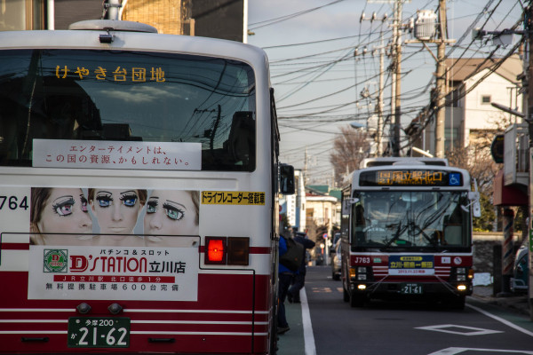 Passing loop No.2, Tachikawabus Keyakidai Danchi Line, Tokyo Kunitachi, Japan. J764 (right) heading to Kunitachi Station passes J763 which is waiting to leave for Keyakidai Danchi.